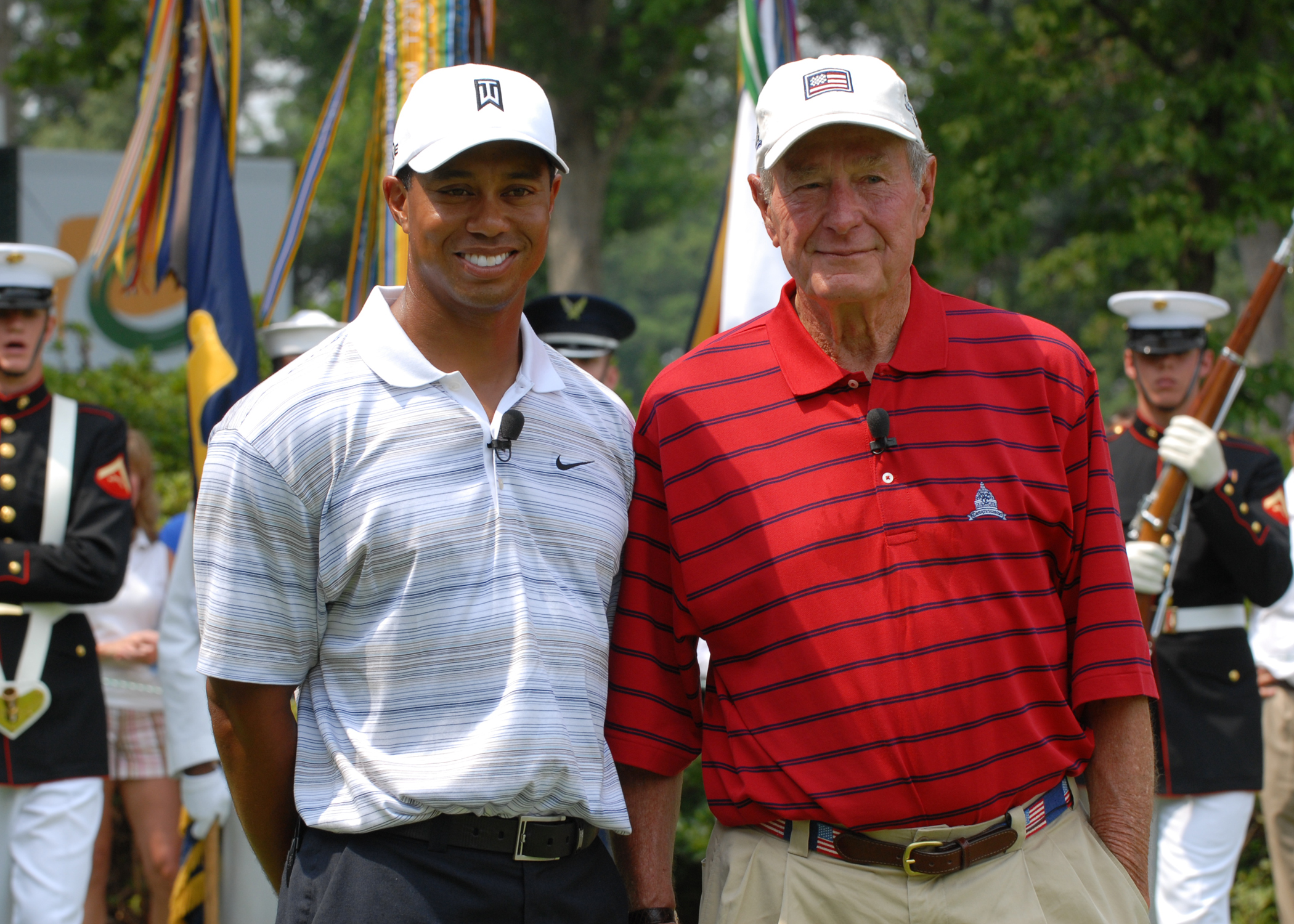 Tiger Woods and former President George H. W. Bush stand in front of the Joint Armed Forces Color Guard during the ending ceremony preceding the inaugural Earl Woods Memorial Pro-Am Tournament, part of the AT&T National PGA Tour event, July 4, 2007, at the Congressional Country Club in Bethesda, Maryland.